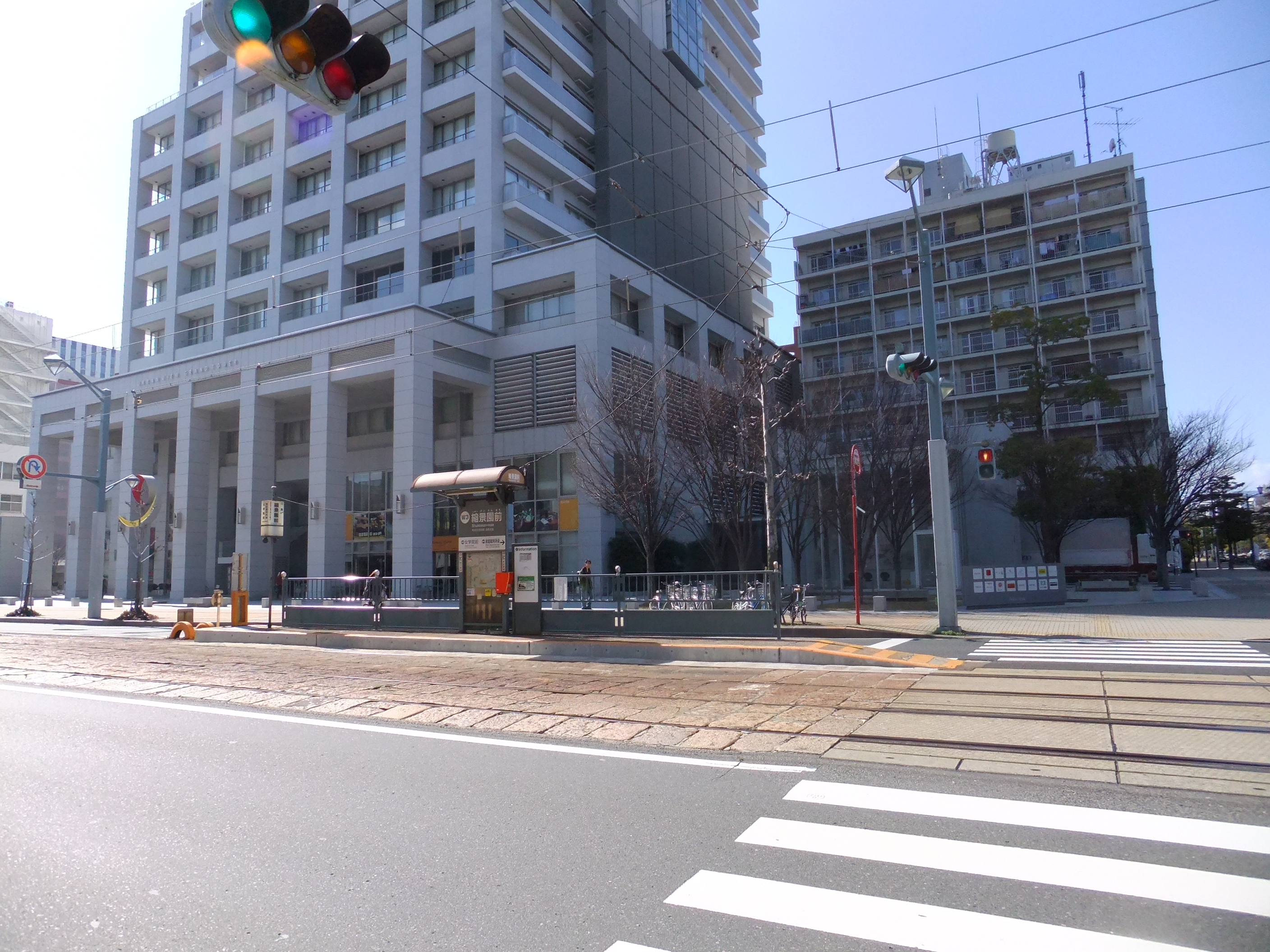 Hiroshima Electric Railway Shukkeien-mae Tram Stop, platform for Hakushima